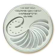 Source:Central Bank of Armenia